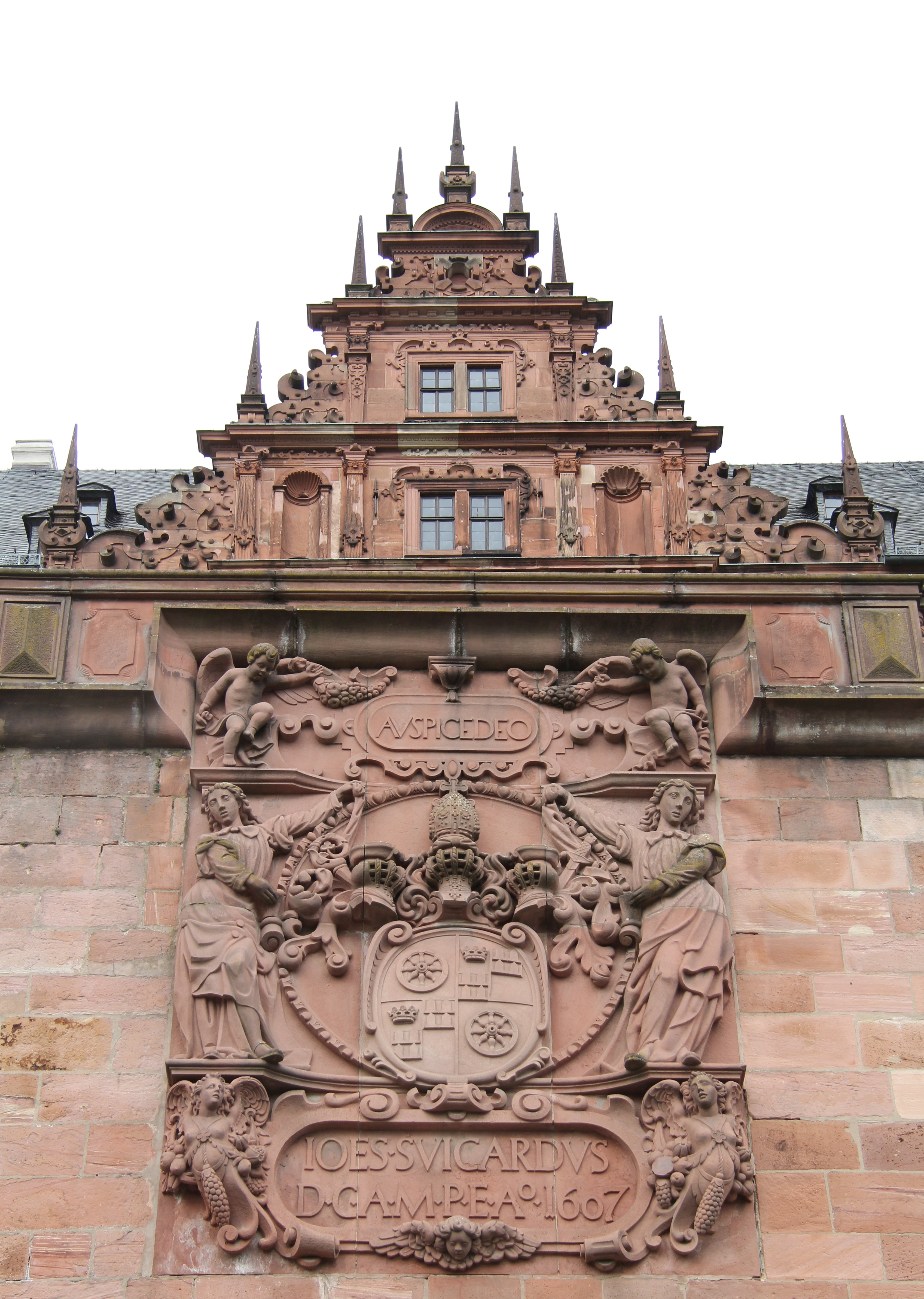 "Wall of the coat of arms" of Johannisburg Castle in Aschaffenburg / Germany The inscription below the coat of arms reads: IO[ANN]ES SUICARDUS D[EI] G[RATIA] A[RCHIEPISCOPUS] M[OGUNTINUS] P[RINCEPS] E[LECTOR] A[NN]O 1607 (